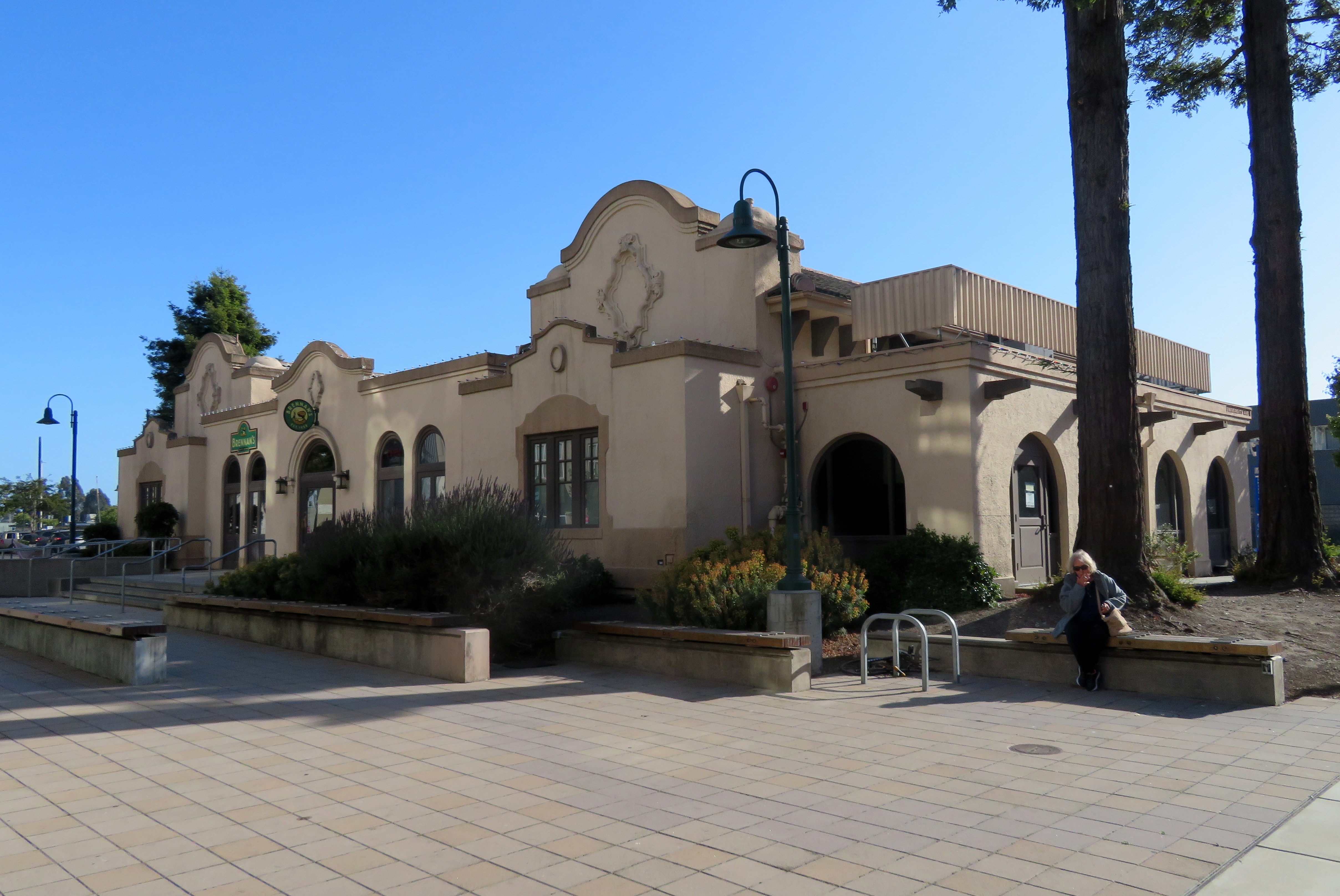 Berkeley station building in June 2018